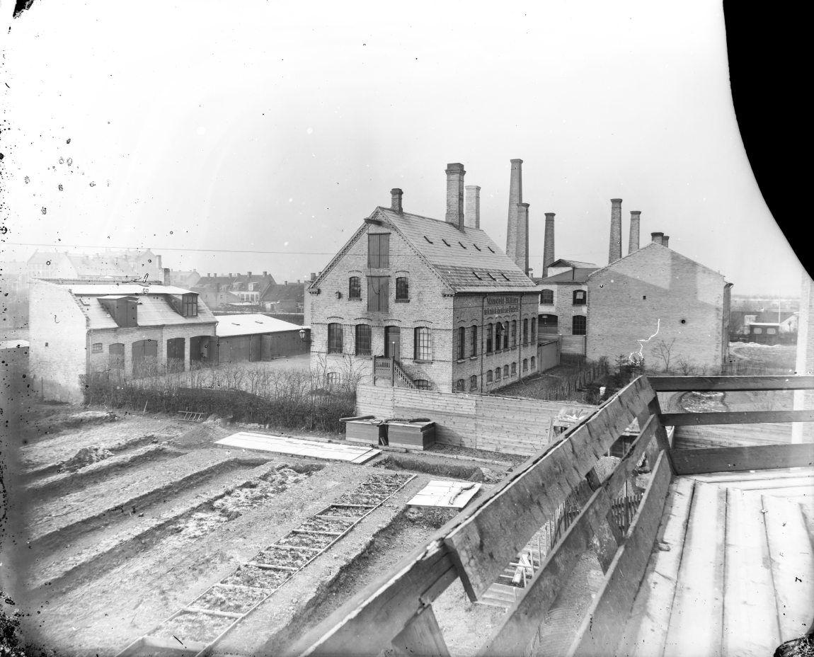 Mansfeld Hollners Teknisk Kemiske Fabrik seen from Tagens Mølle, approximately where Thorsgade now meets Tagensvej, in Copenhagen, Denmark.